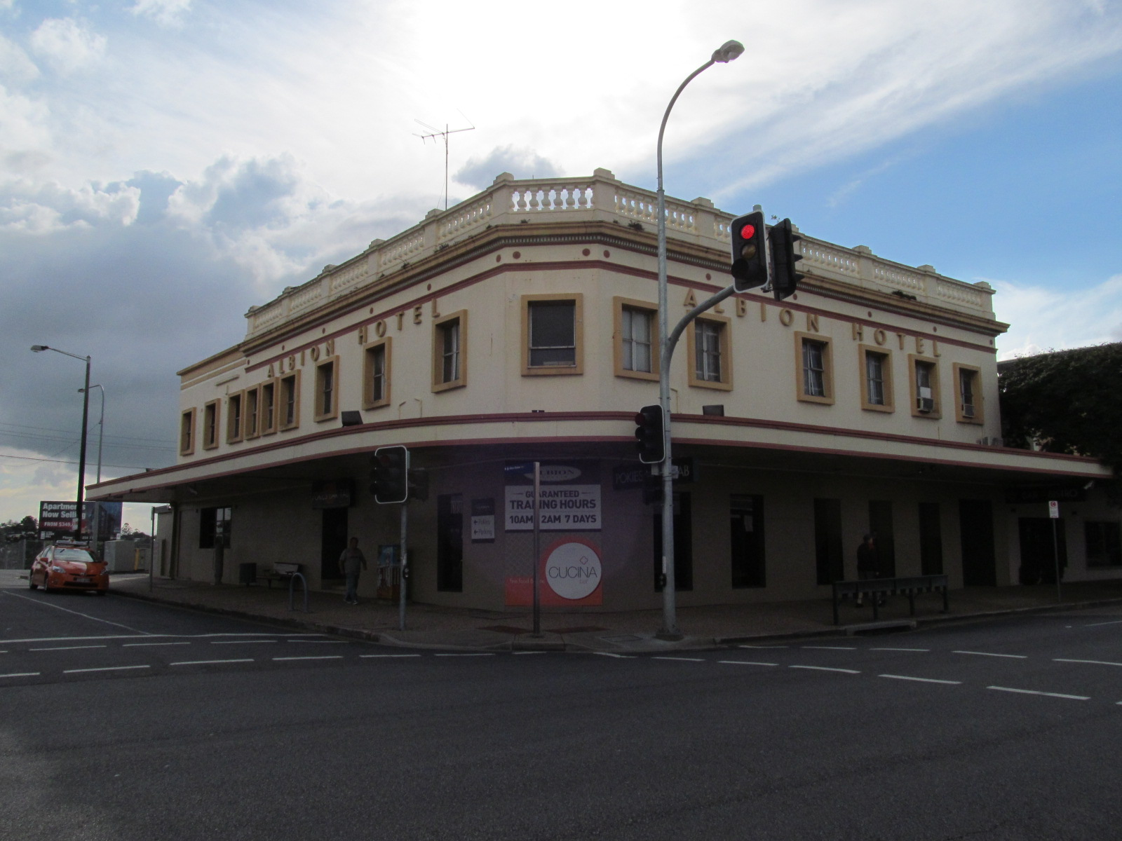 Albion Hotel on Sandgate/Albion Roads, Albion, Queensland